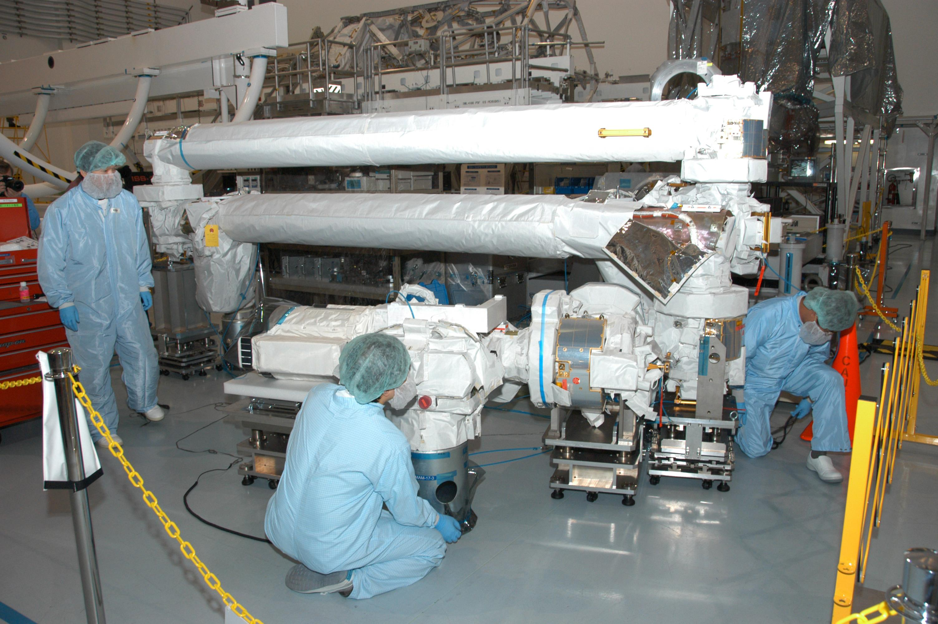 KENNEDY SPACE CENTER, FLA. -- In the Space Station Processing Facility, technicians work on the Japanese remote manipulator system. It is scheduled to fly on a 2008 mission along with the Kibo Japanese Experiment Module Pressurized Module (JEM-PM). Photo credit: NASA/George Shelton